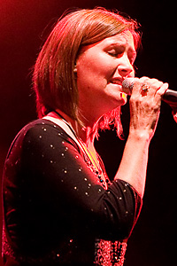 Karen Matheson performing with Capercaillie at Celtic Rock 2007, Glamis Castle, Scotland, 31st August 2007.